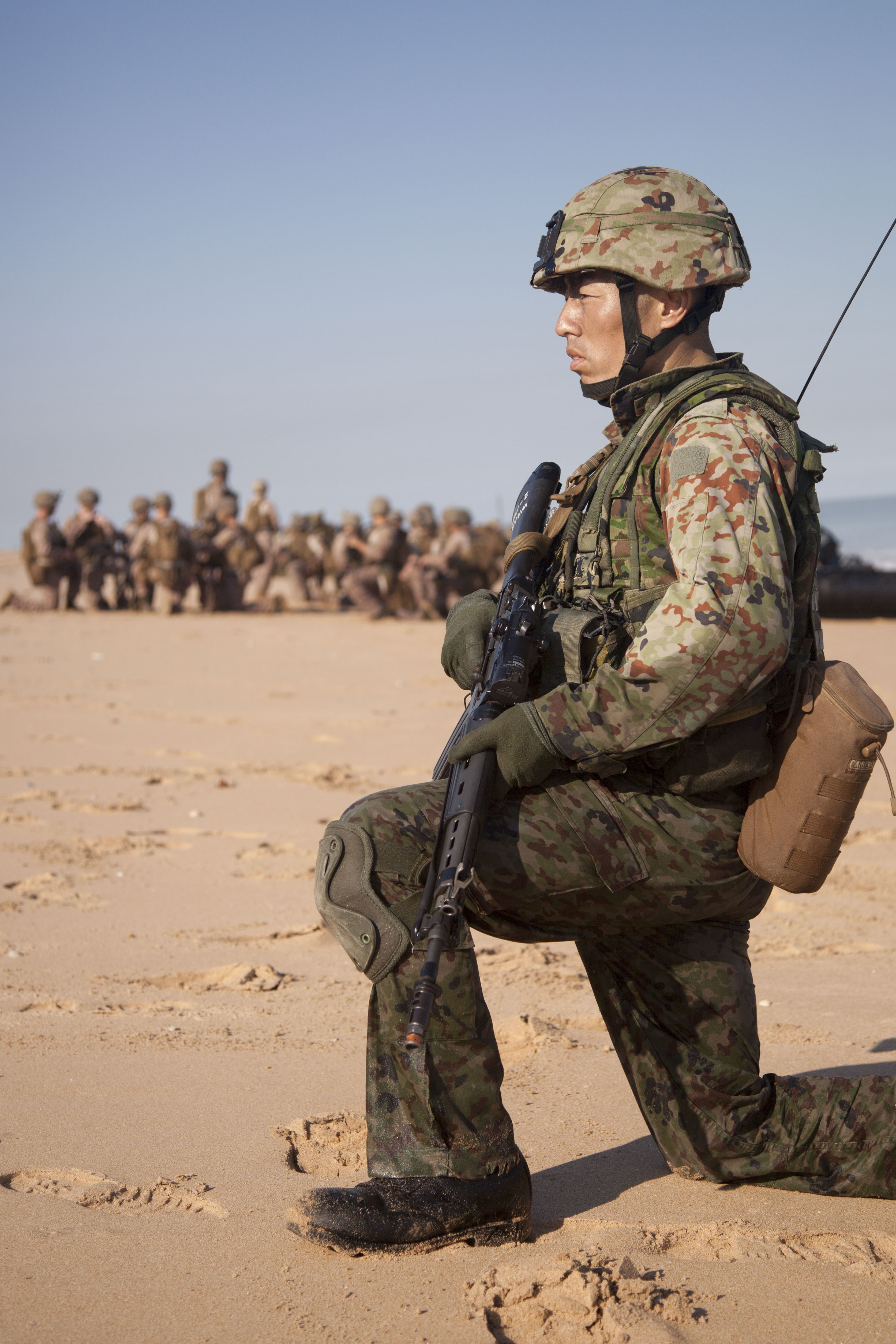 A Japanese soldier from the Japanese Self Defense Force attached to the U.S Marines' Battalion Landing Team, 2nd Battalion, 5th Marines, 31st Marine Expeditionary Unit, participates in an amphibious assault utilizing Combat Rubber Reconnaissance Crafts at Fog Bay during exercise Talisman Sabre 15, in the Northern Territory, Australia, July 11. Talisman Sabre provides an invaluable opportunity to conduct operations in a combined, joint, and interagency environment that will increase the U.S and Australia’s ability to plan and execute contingency responses, from combat missions to humanitarian efforts. (U.S. Marine Corps photo by MCIPAC Combat Camera Gunnery Sgt. Ricardo Morales/Released)